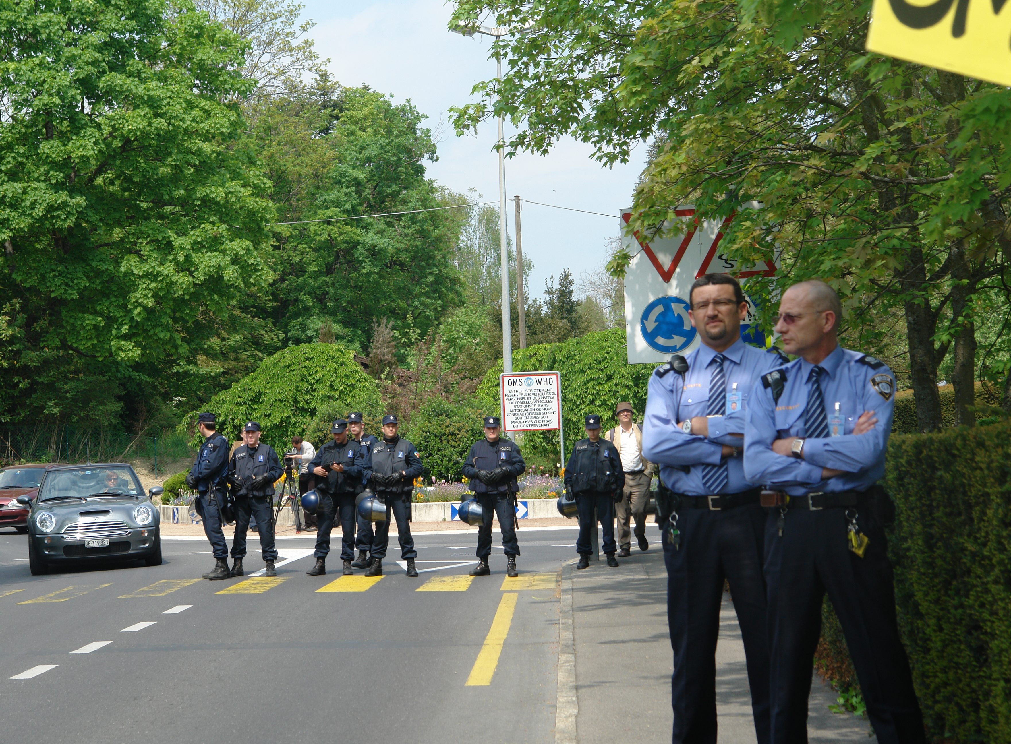 Demonstration on Chernobyl day near WHO in Geneva.